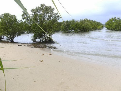 Kapaluhan Beach